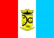 Flag of the municipality of Agrolândia, SC, Brazil